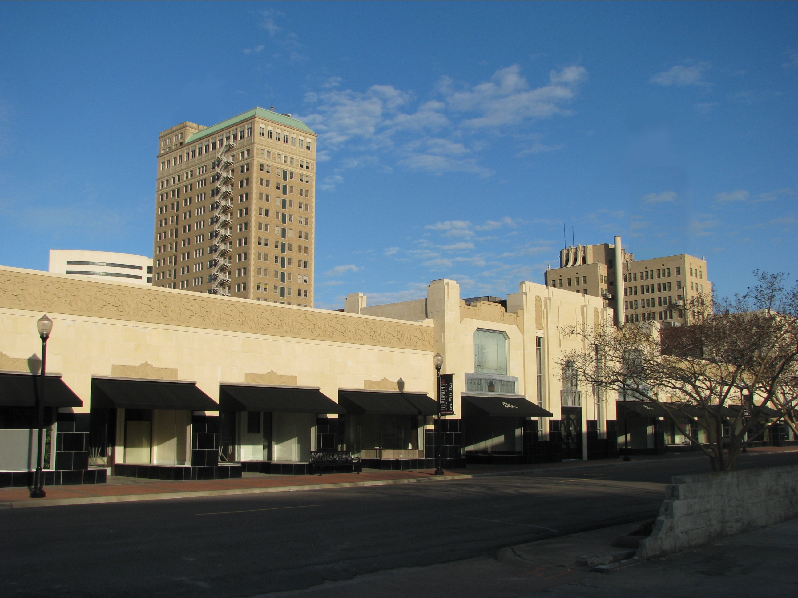 Kyle Block in foreground, Edson Hotel (left), Goodhue Building (right).